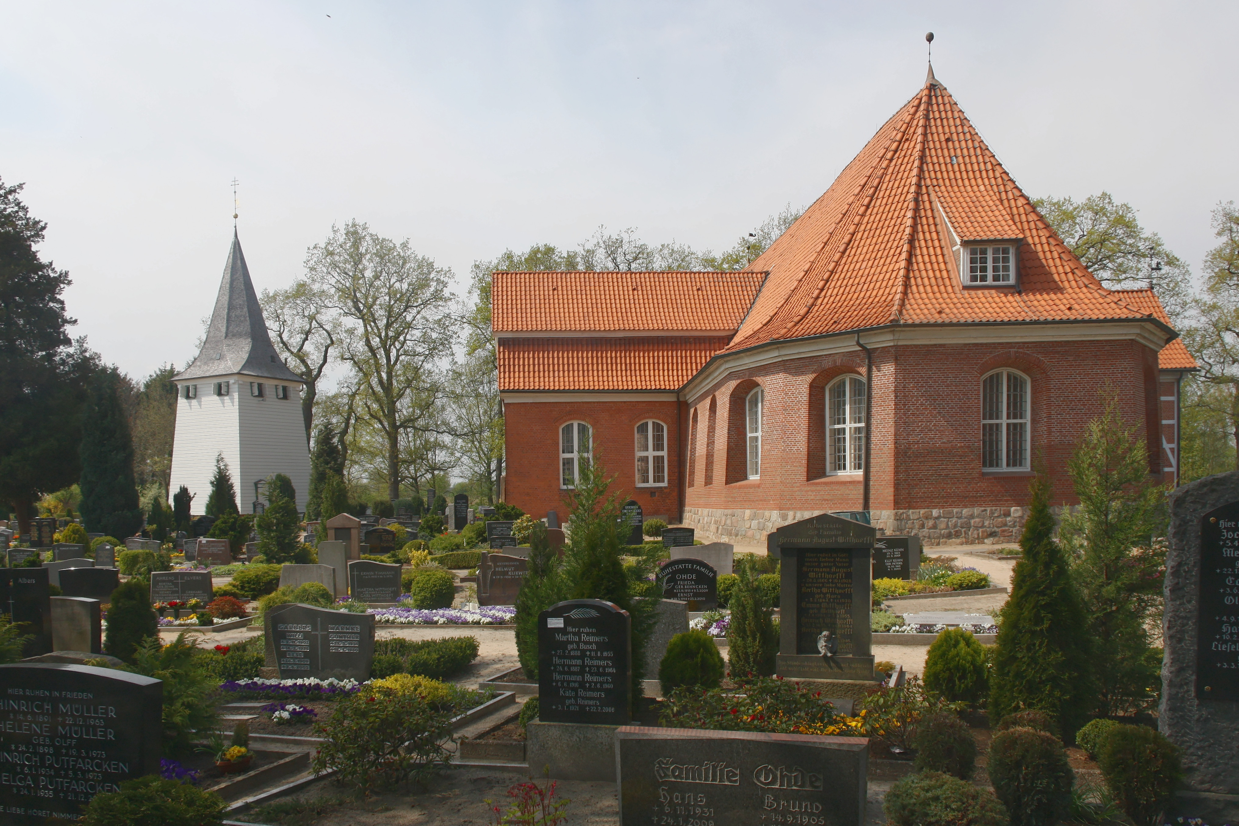 Church St. Severini, Hamburg-Kirchwerder, eastern view